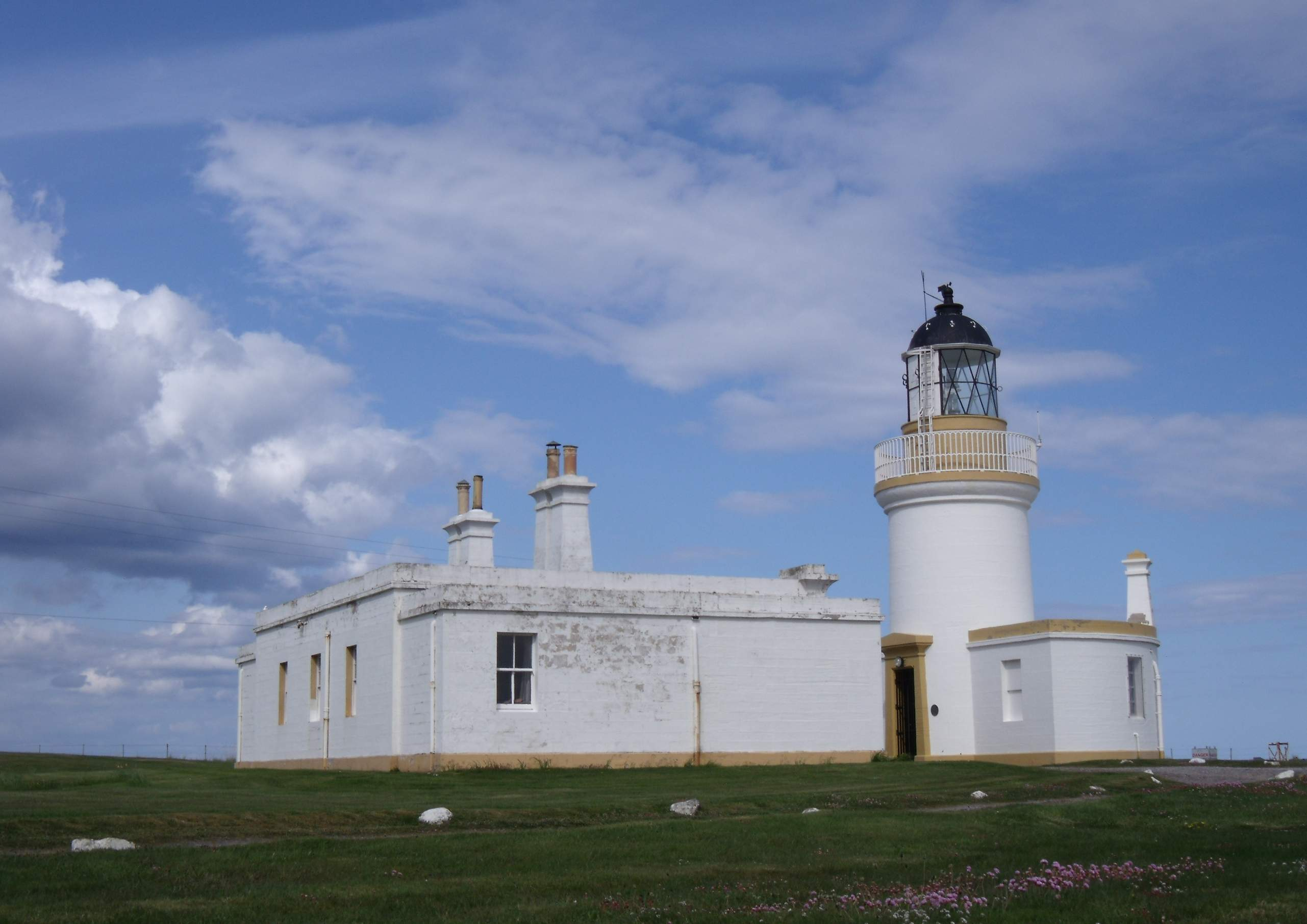 Chanonry Lighthouse, originally a 'one-man station', is situated on the Black Isle, south of Rosemarkie, as the moray Firth narrows between Chanonry Point and Fort George. The establishment of a light on Chanonry Point was first proposed in 1834 and again in 1837 by the Commissioners' Engineer, Alan Stevenson, but it was not until 1843 that the motion to erect such a lighthouse was approved by the Commissioners. In May 1843 the Commissioners made representations to Trinity House who duly approved the proposed seamark in July 1843. The cost of building the lighthouse and lightkeepers' dwellings was £3,570 and the light was first exhibited on the night of 15 May 1846. When the station was manned, the lightkeeper, in addition to his normal lightkeeping duties, was the "Observer" of Munlochy Shoal, Middle Bank East, Craigmee, Riff Bank East and Navitty Bank Lighted buoys. The station was automated in 1984 and is now remotely monitored from the Northern Lighthouse Board’s offices in Edinburgh.